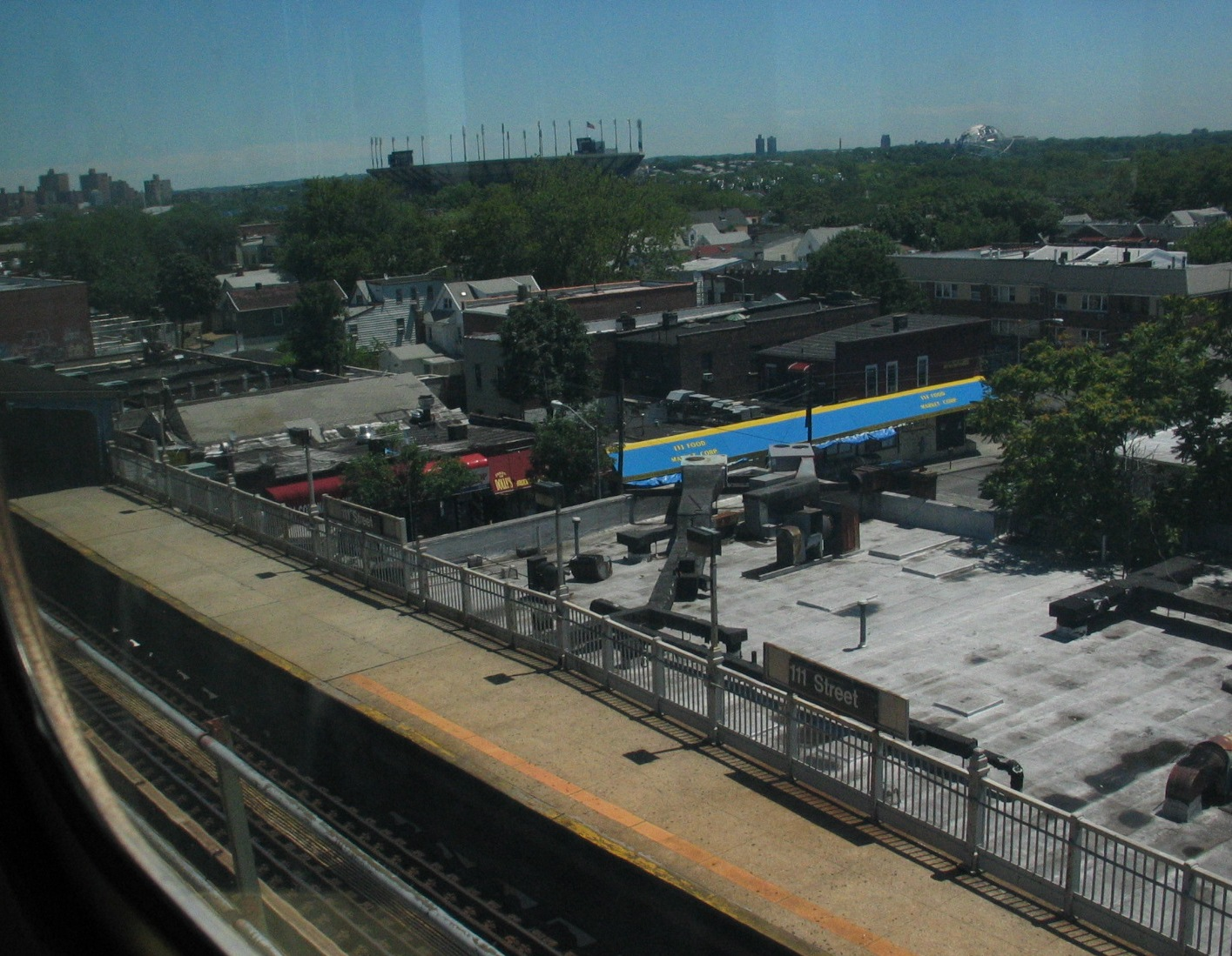 the eastbound platform of the 111st street station, as seen from the Flushing Express train